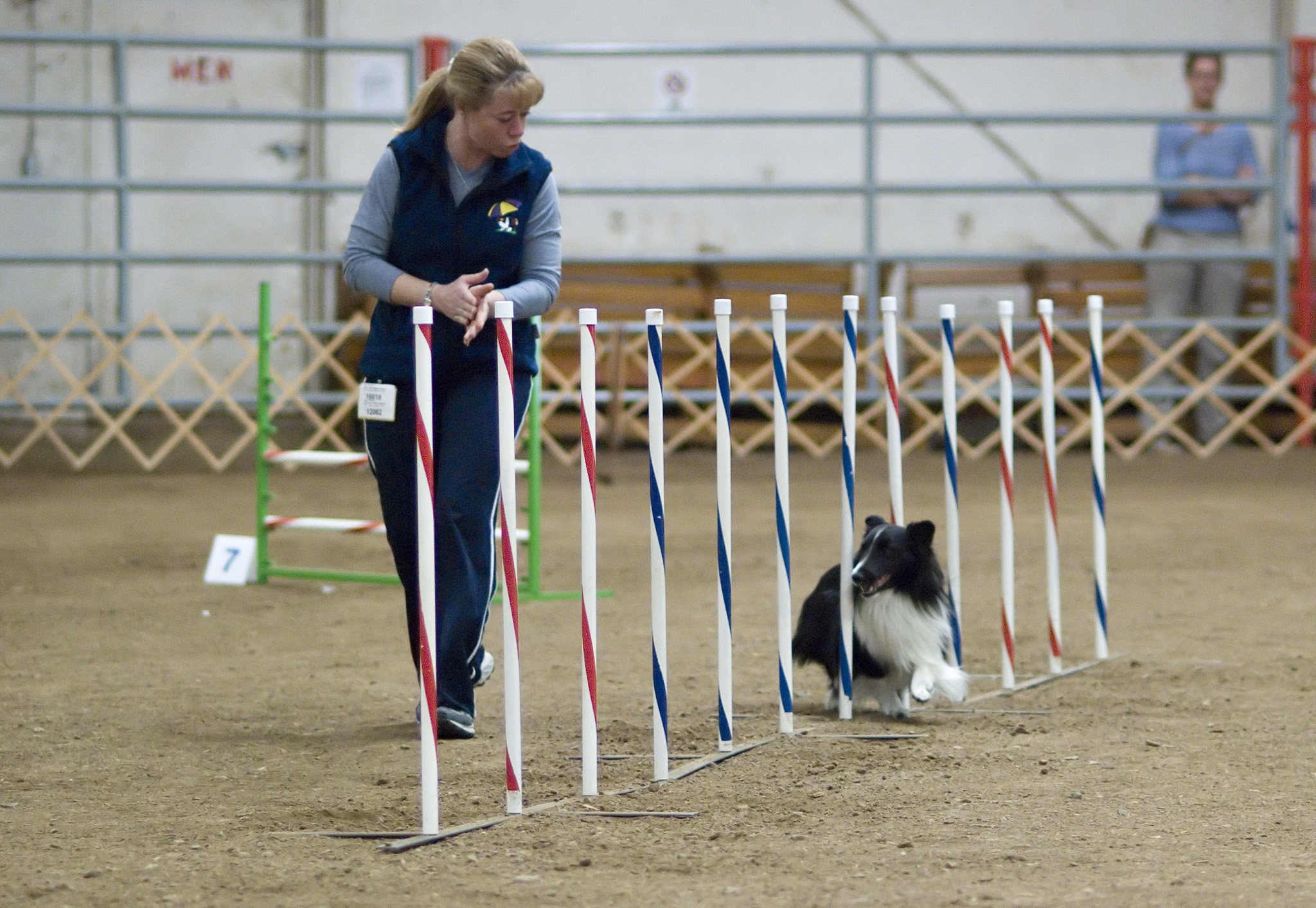 A black and white Shetland Sheepdog (without tan points) during an agility competition.